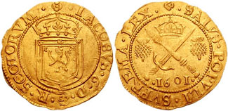 Scotland. James VI of Scotland (James I of England). 1567-1625. AV Sword and Sceptre (Six Scottish Pounds) (5.08 g). Dated 1601. Crowned coat-of-arms Crossed sword and sceptre with crown and thistles; date below. Burns II pg. 399, 1 (fig. 956); SCBC 5460. Near EF, a few light scuff marks. ($2000)